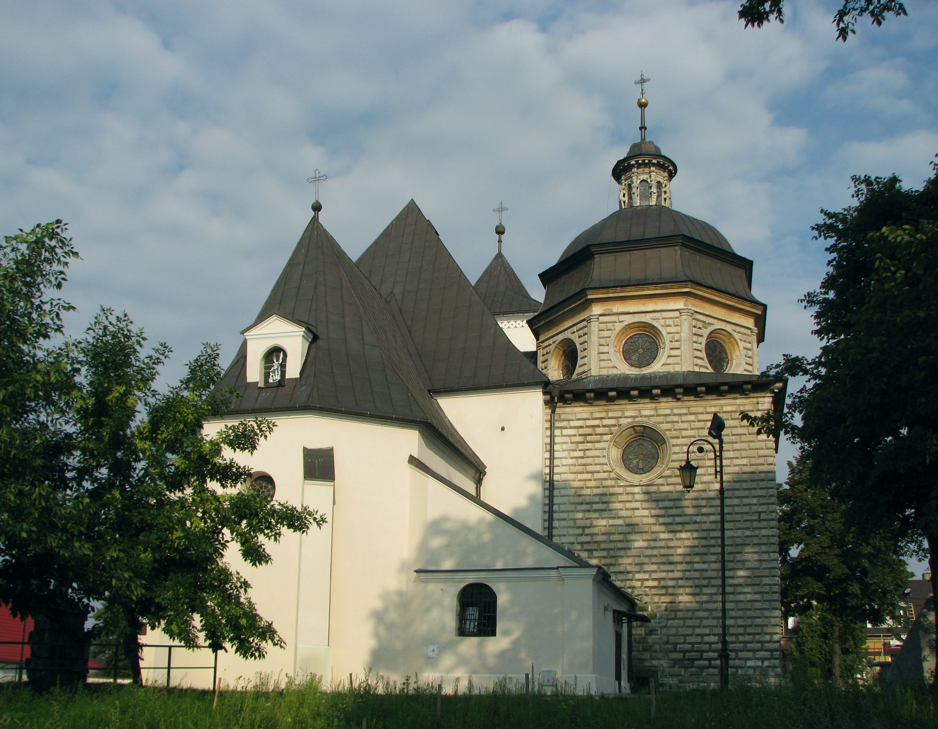 St. Bartłomiej Church in Staszów, Poland.